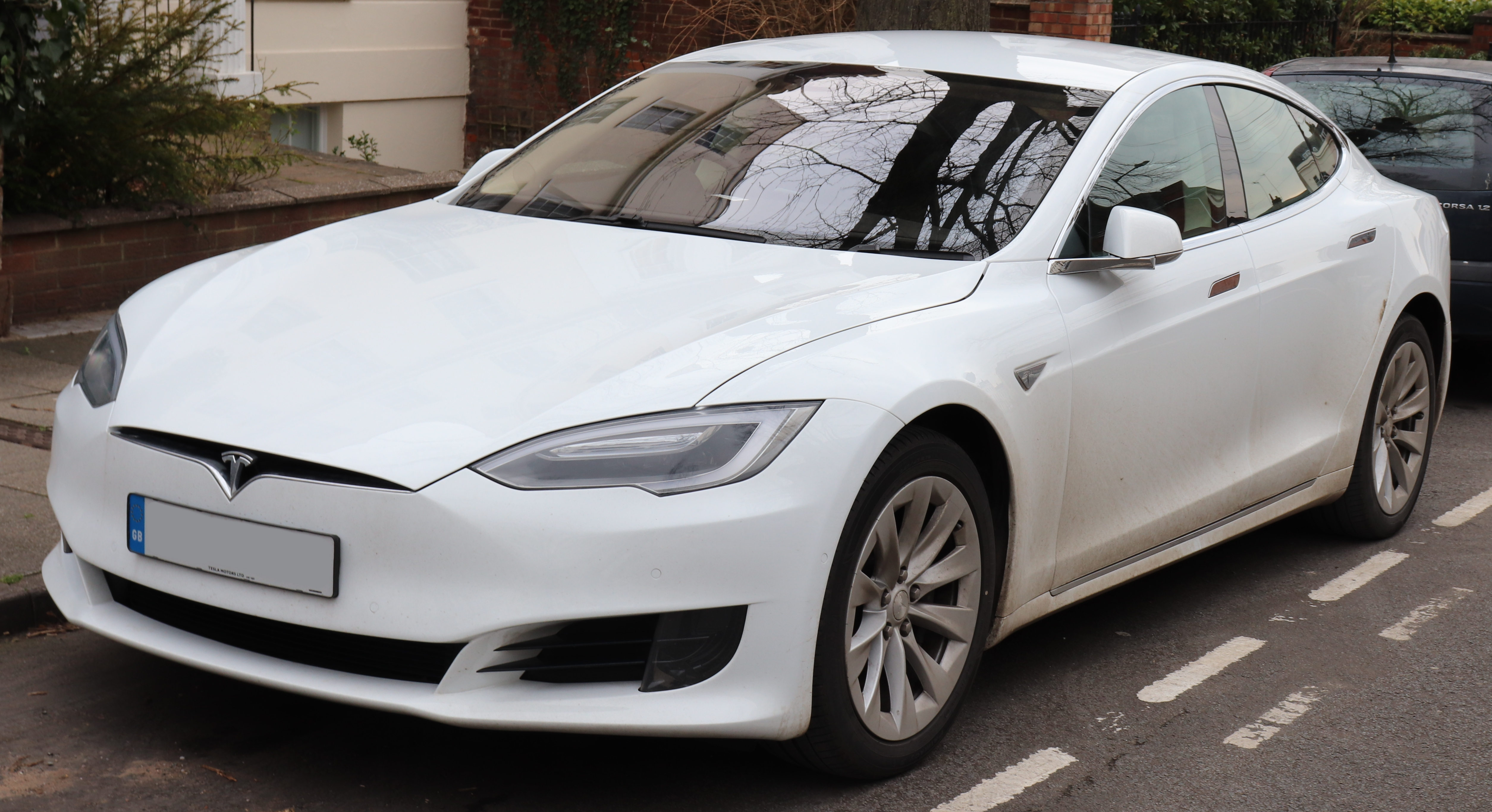 2016 Tesla Model S 75 Front Taken in Leamington Spa